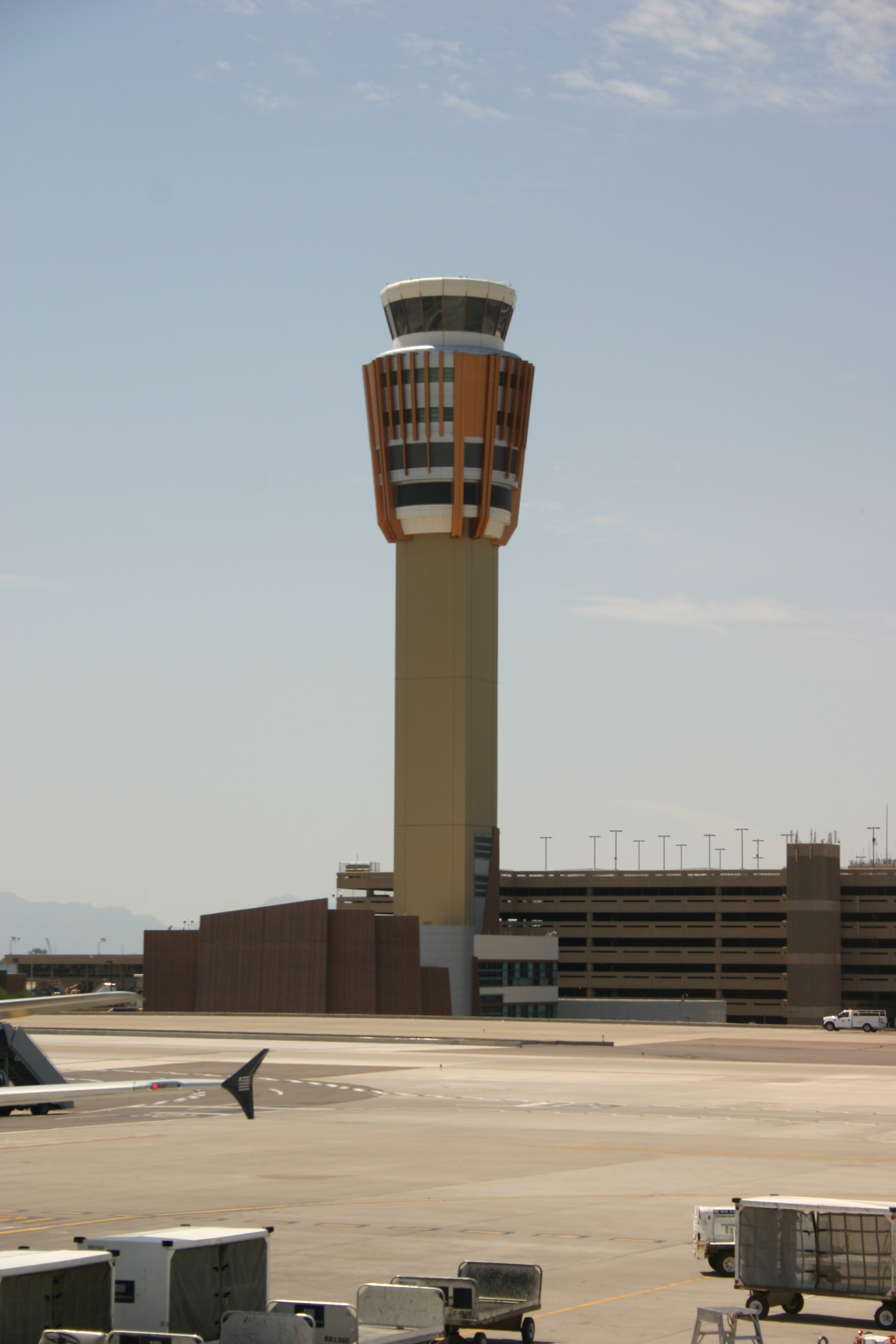 The new control tower viewed from Terminal 4 at Phoenix Sky Harbor International Airport